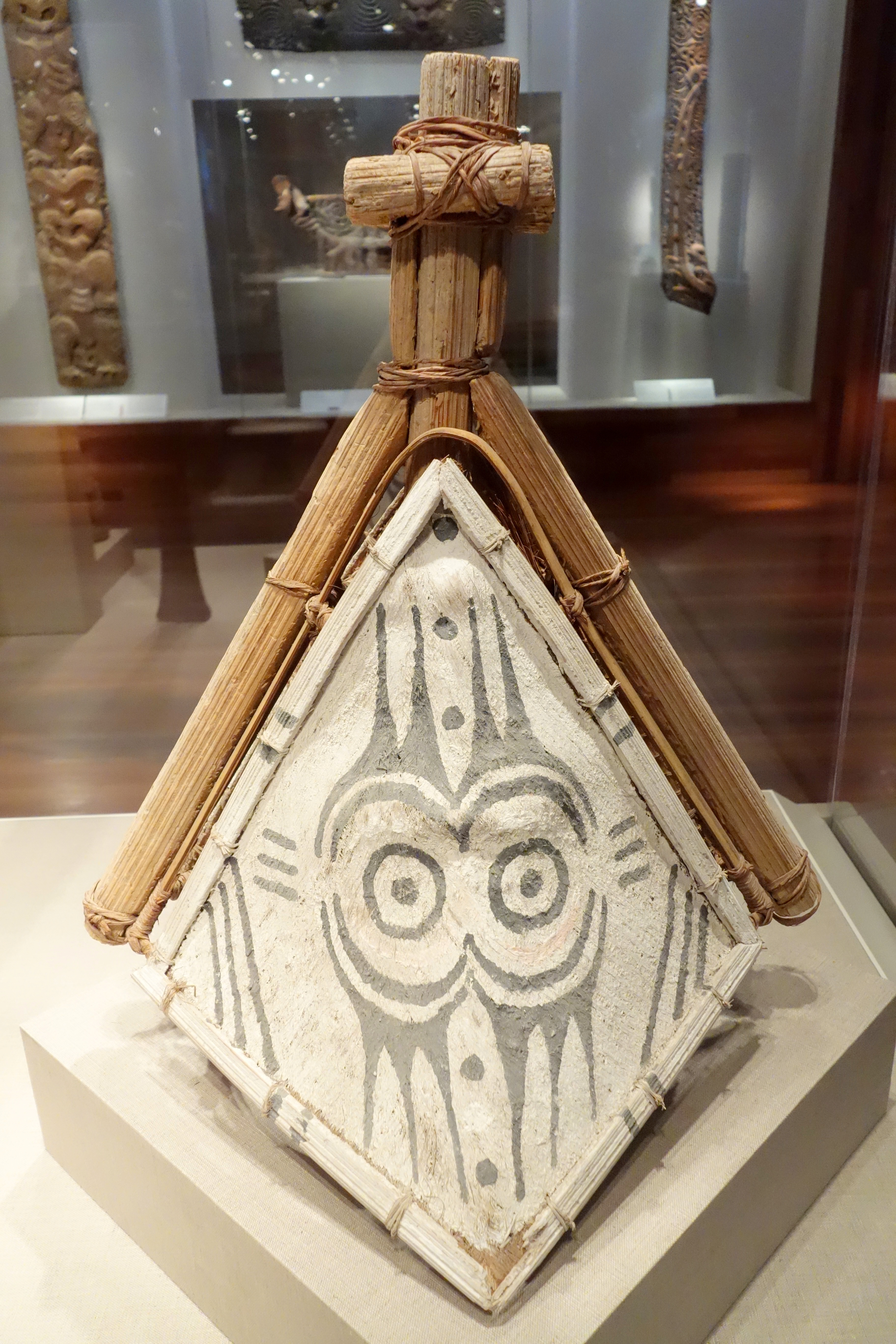 Exhibit in the De Young Museum, San Francisco, California, USA. This artwork is in the public domain because the artist died more than 70 years ago.